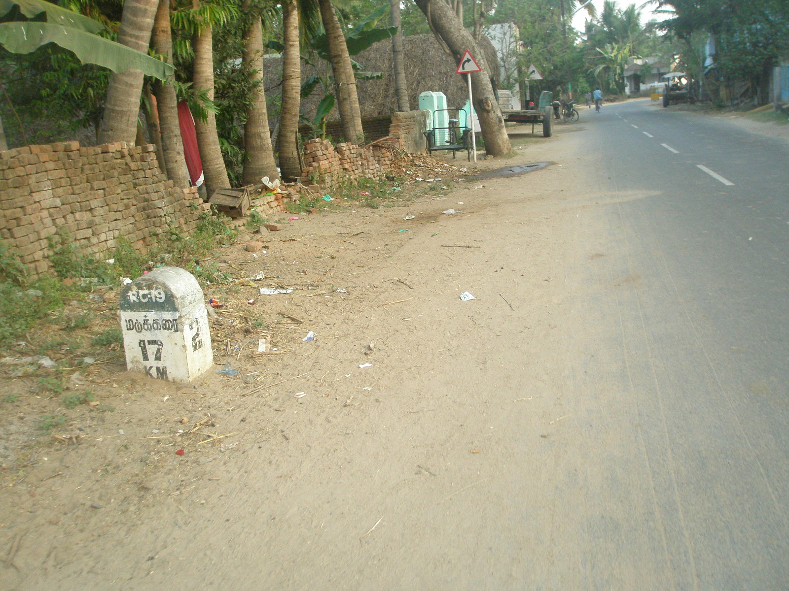 2nd Kilometre Stone at Managalam (RC-19)